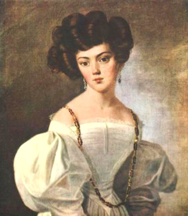 Peter Kropotkin's mother